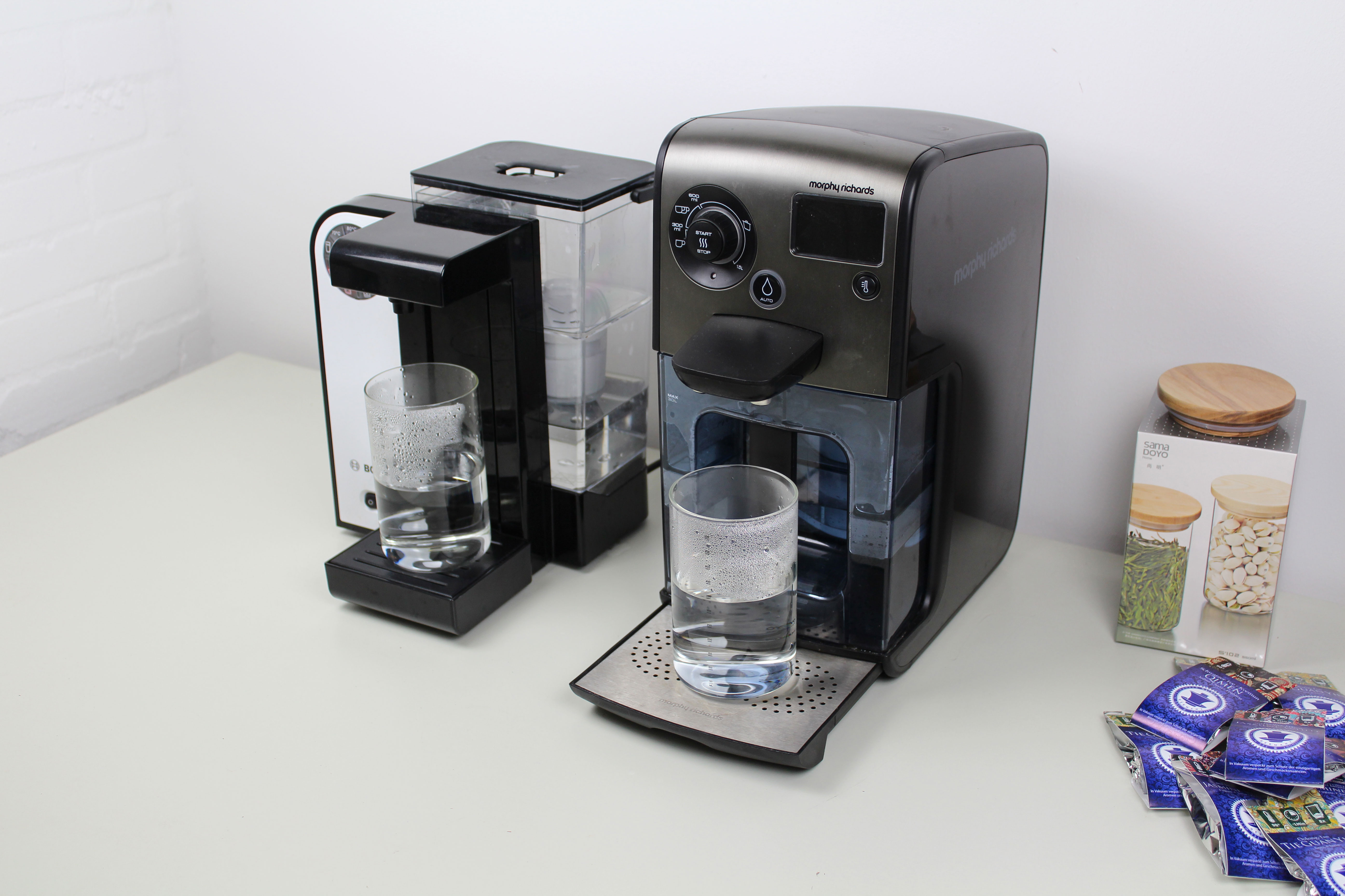 Hot water dispenser: morphy richards redefine (131000) and the BOSCH Filtrino THD2023